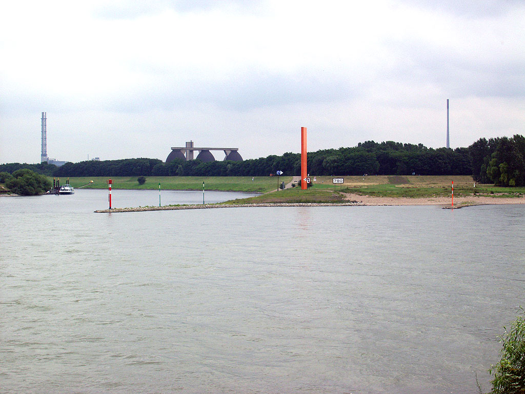 Estuary of the river Ruhr into the Rhine at Duisburg-Ruhrort, Germany